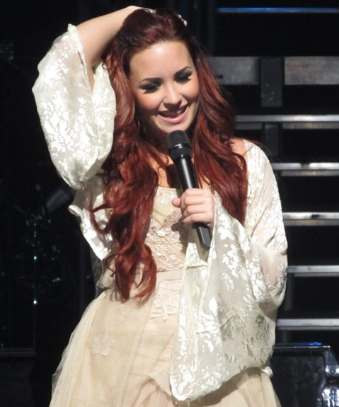 Demi Lovato: (We The Kings) in December 2011.